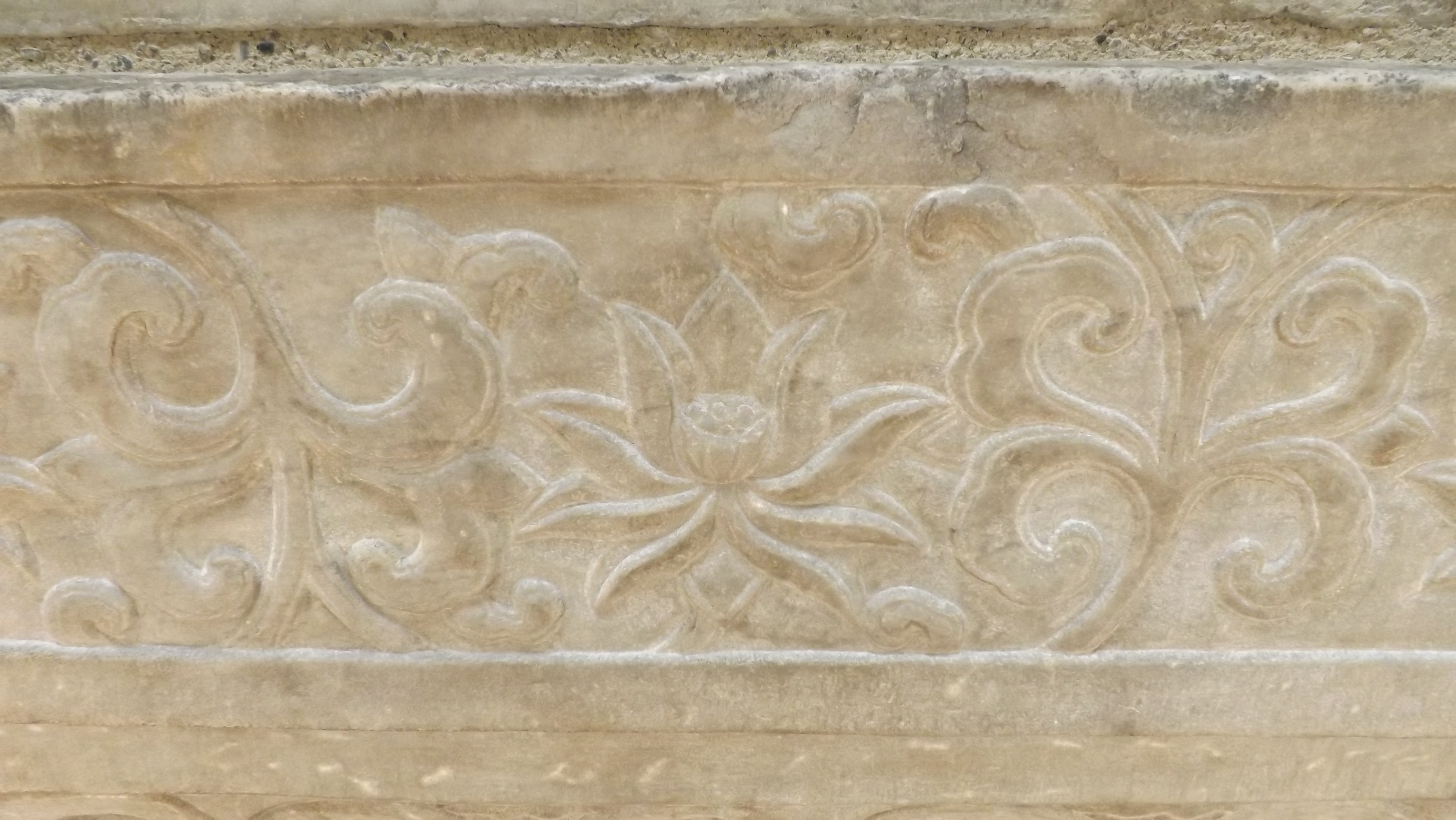 Archway carving, Royal Ontario Museum